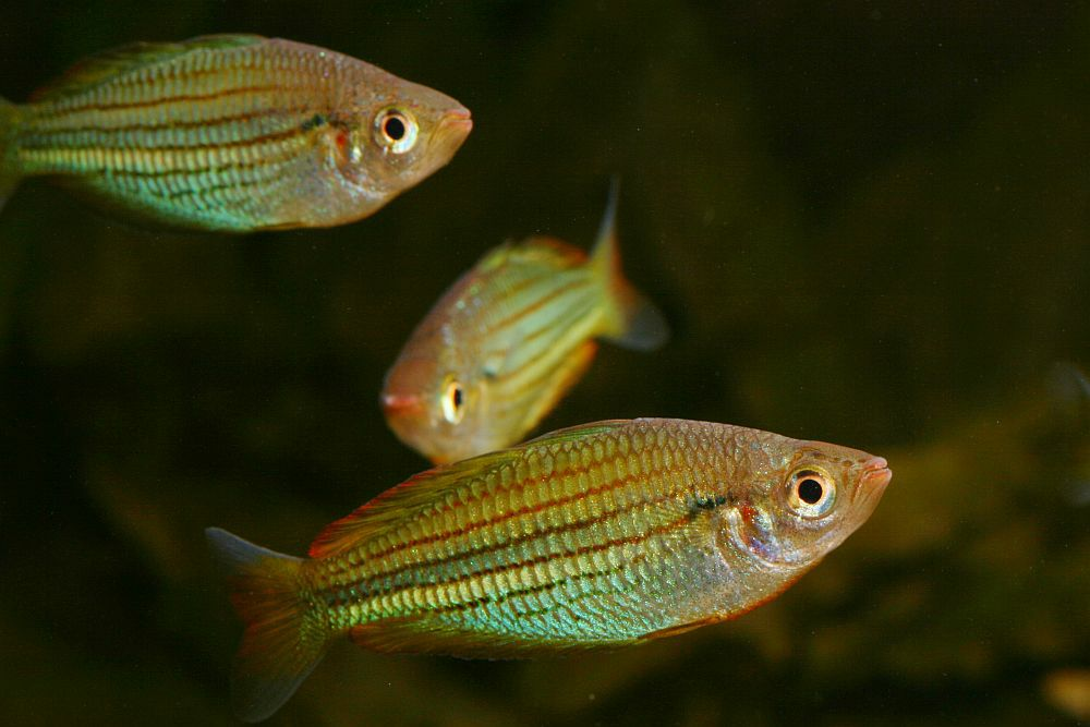 Fly River Rainbowfish (Melanotaenia sexlineata) - form "Kiunga" - in aquarium.